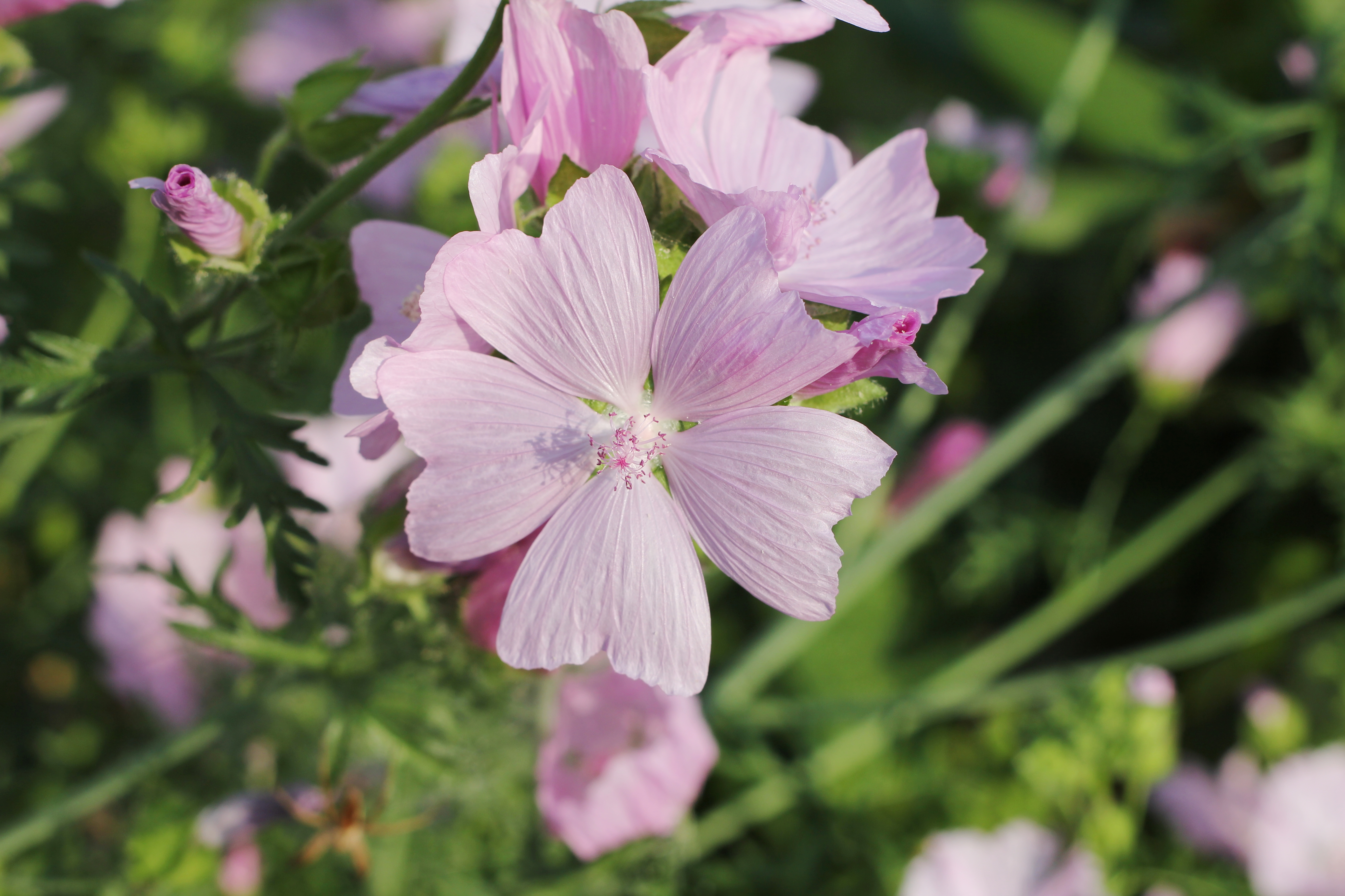 Bloom of the Rose-Mallow